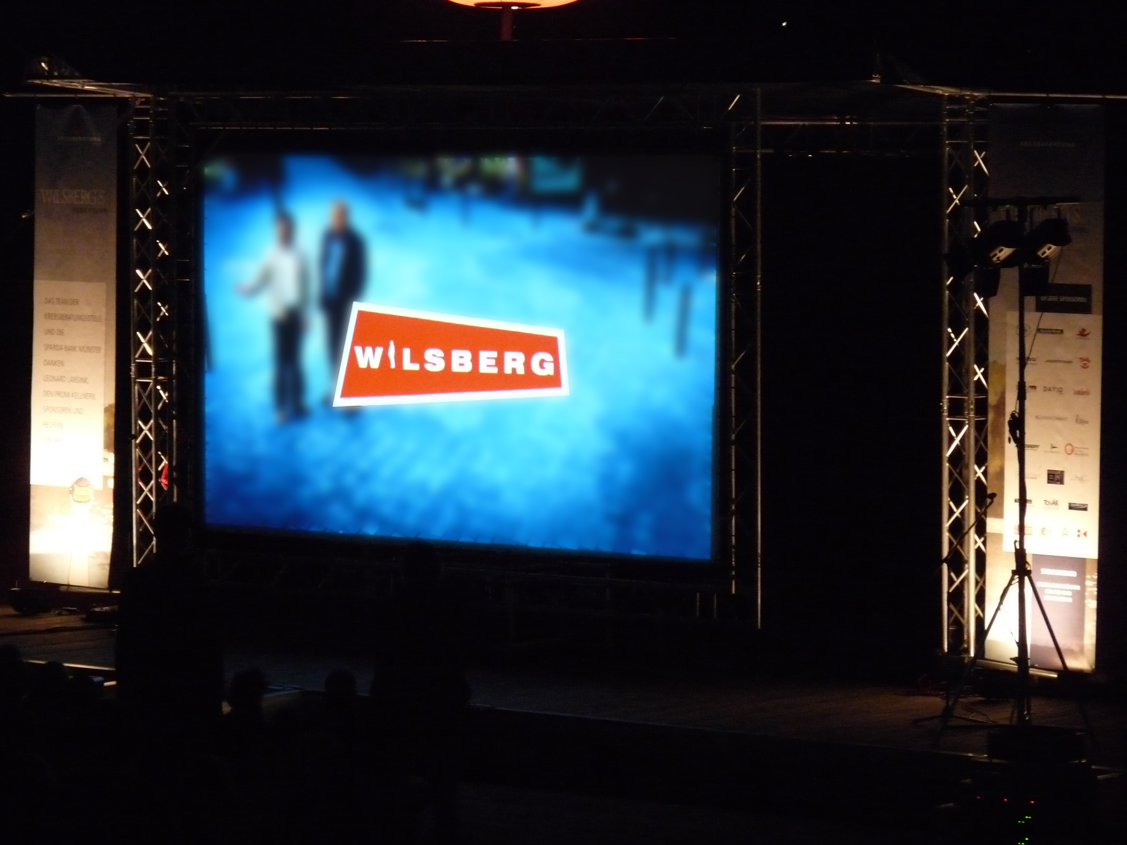 outdoor cinema: Wilsberg: Gegen den Strom at Aasee in Münster